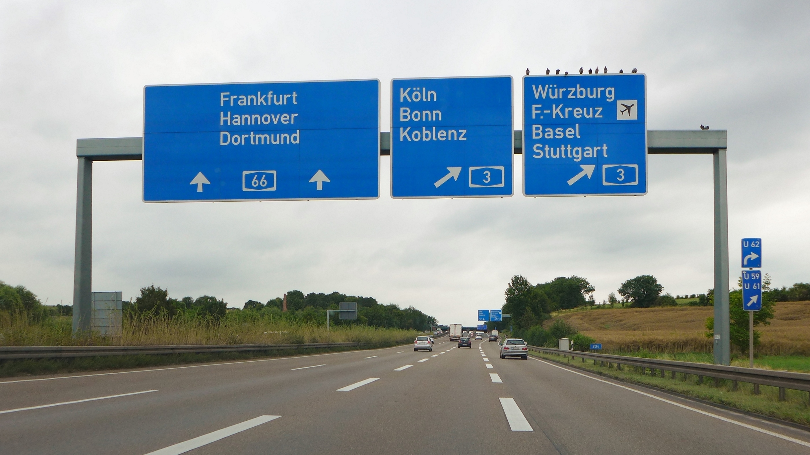 A sign gantry straddling the western approach of Bundesautobahn 66 to the Wiesbadener Kreuz, Hesse, Germany.